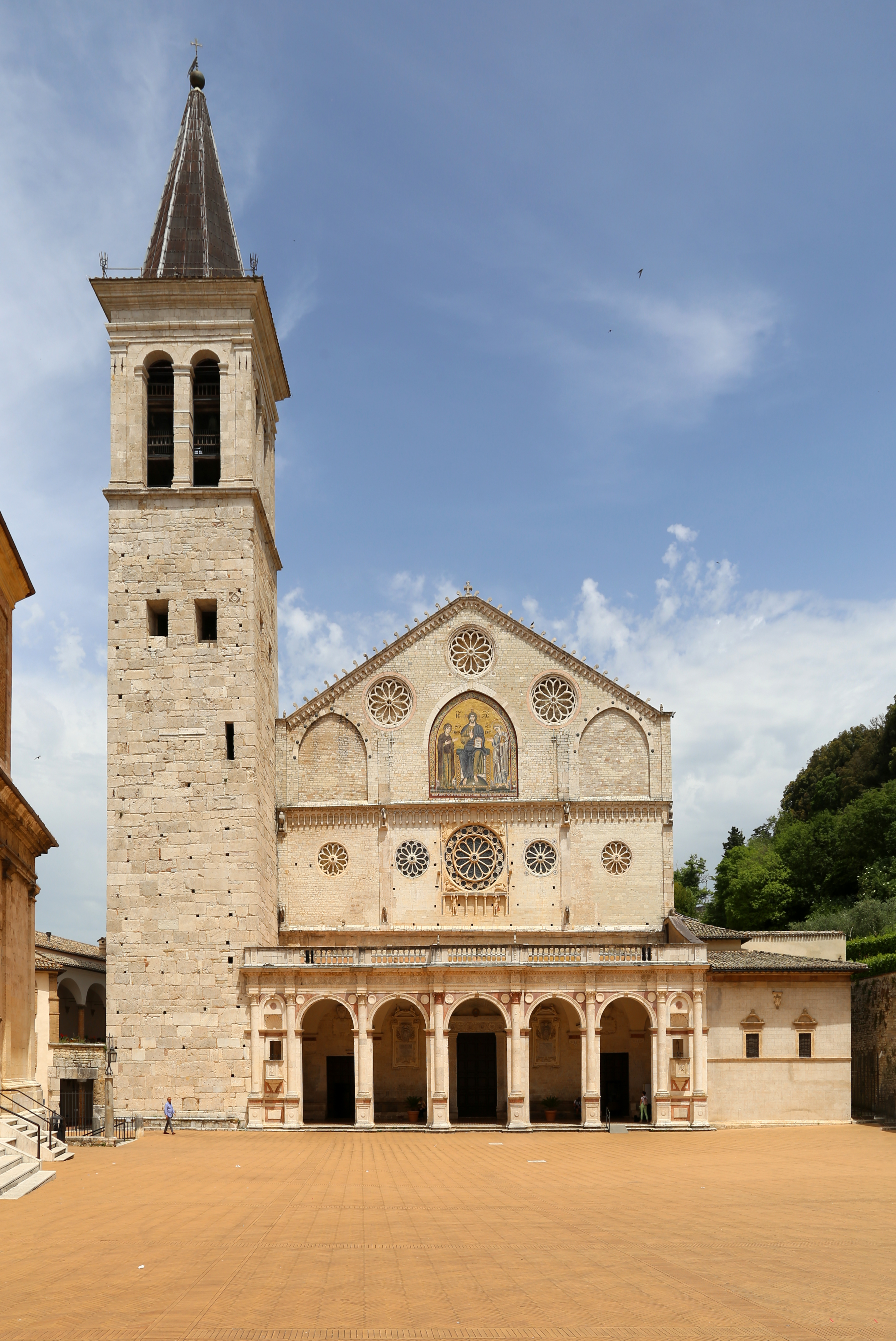 Duomo (Spoleto) - Facade